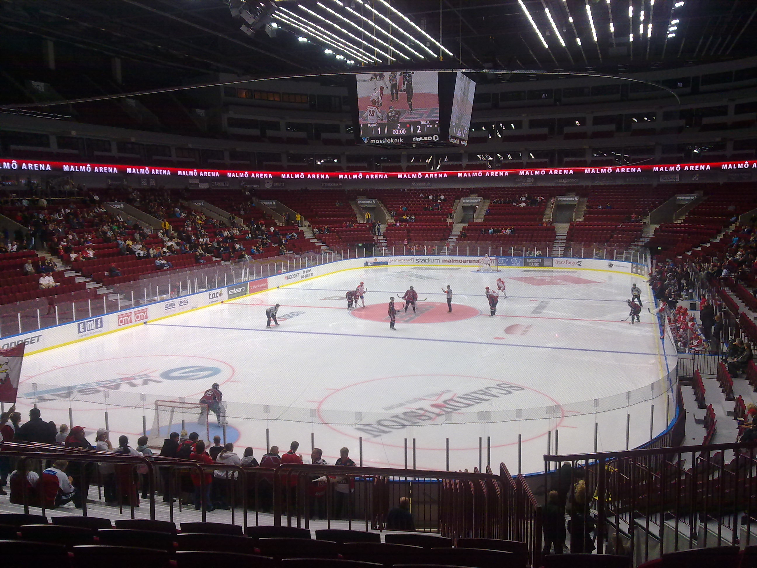 Malmö Arena with icehockey setup during the Malmö Redhawks-IF Troja (2-6) practice game